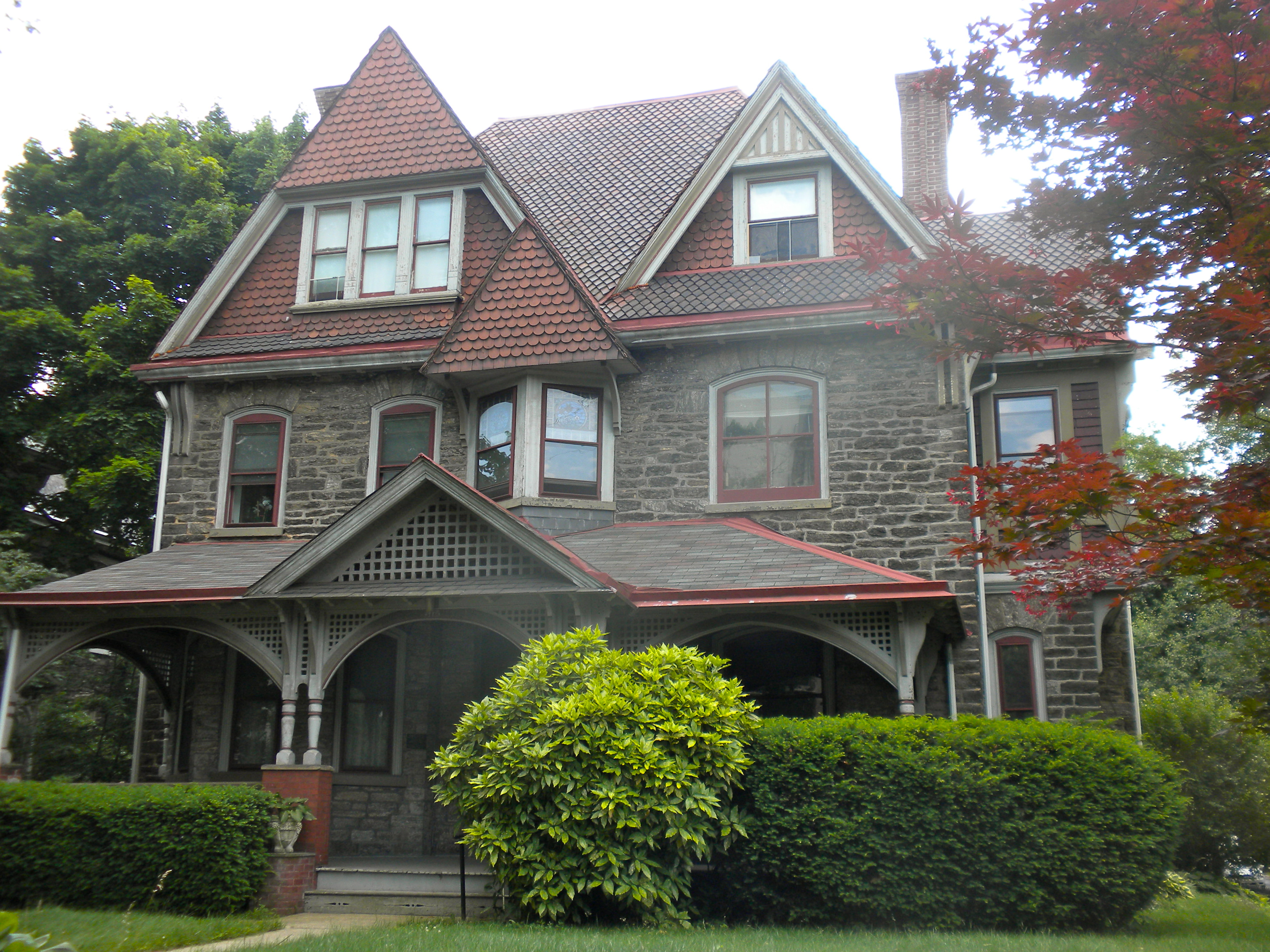 William C. Sharpless House on the NRHP since December 29, 1983. At 5446 Wayne Avenue in Germantown neighborhood of Northwest Philadelphia.